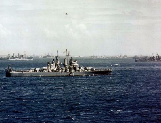 The U.S. Navy light cruiser USS Miami (CL-89) prepares to depart for the invasion of Okinawa, March 1945. Probably taken at Ulithi Atoll. Photographed from USS West Virginia (BB-48).